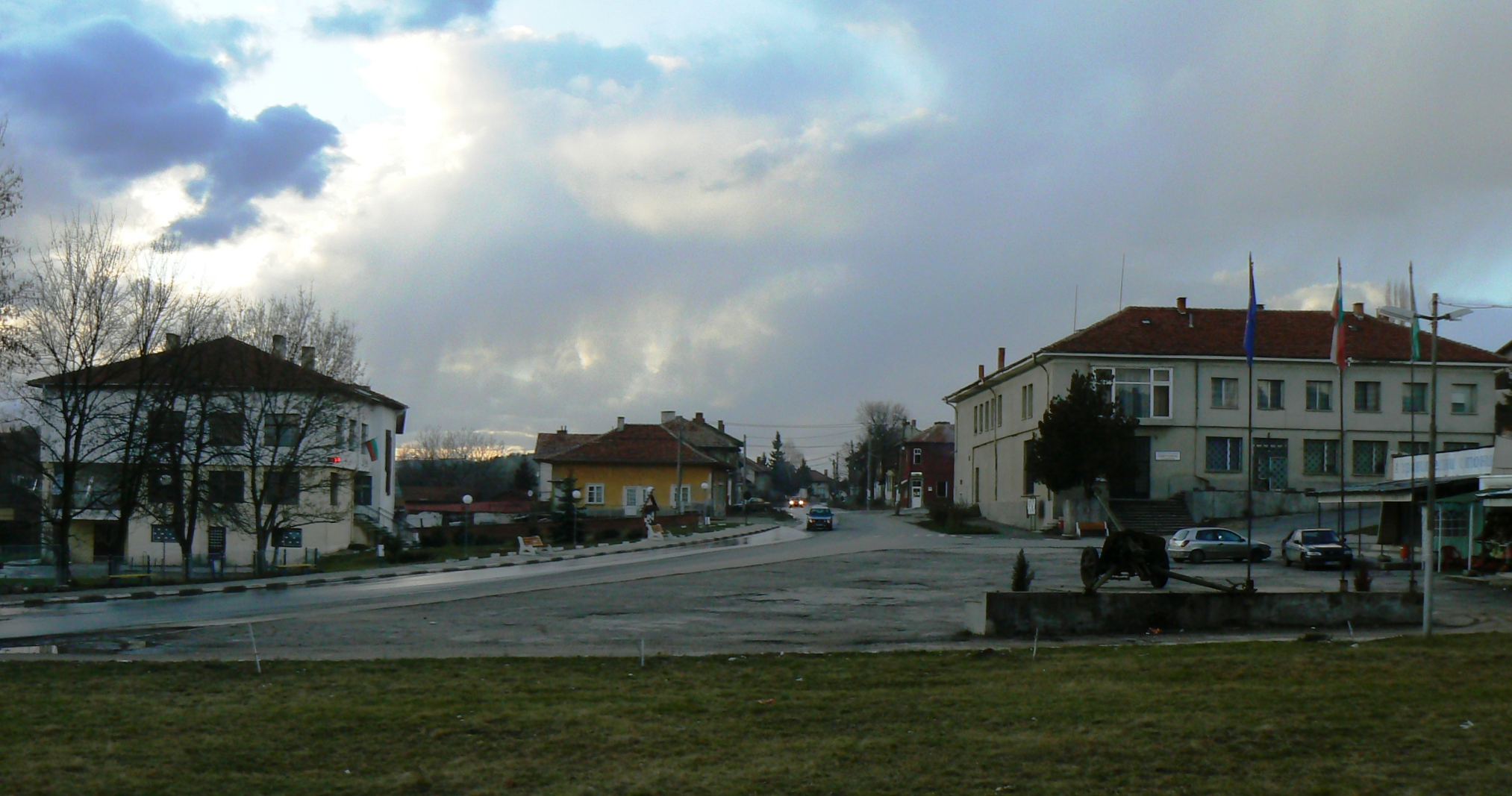 The centre of village Aldomirovtsi, Bulgaria